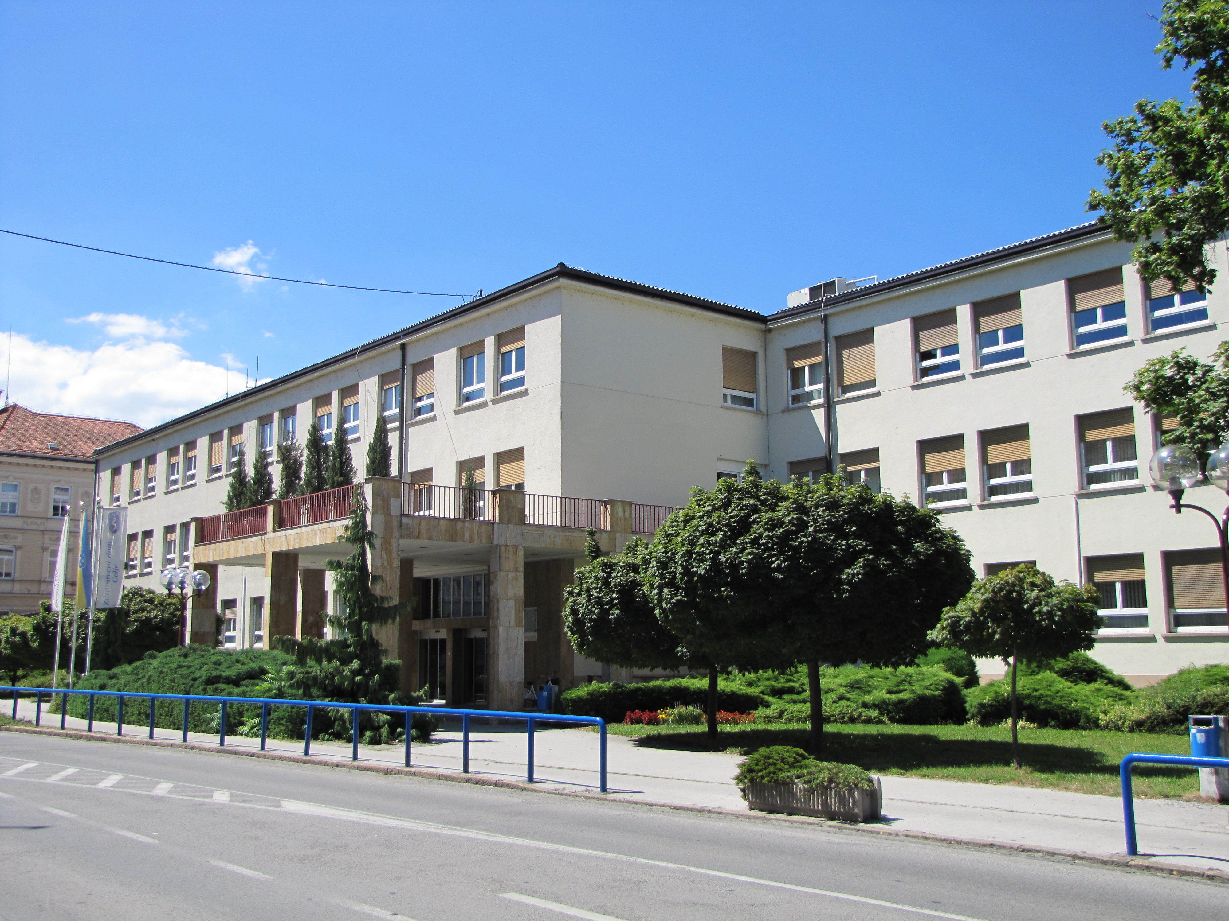 Health Home Celje.